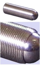 This is a photo of a 1/4 inch major diameter 100 thread per inch fine adjustment screw with a close-up of the threads.